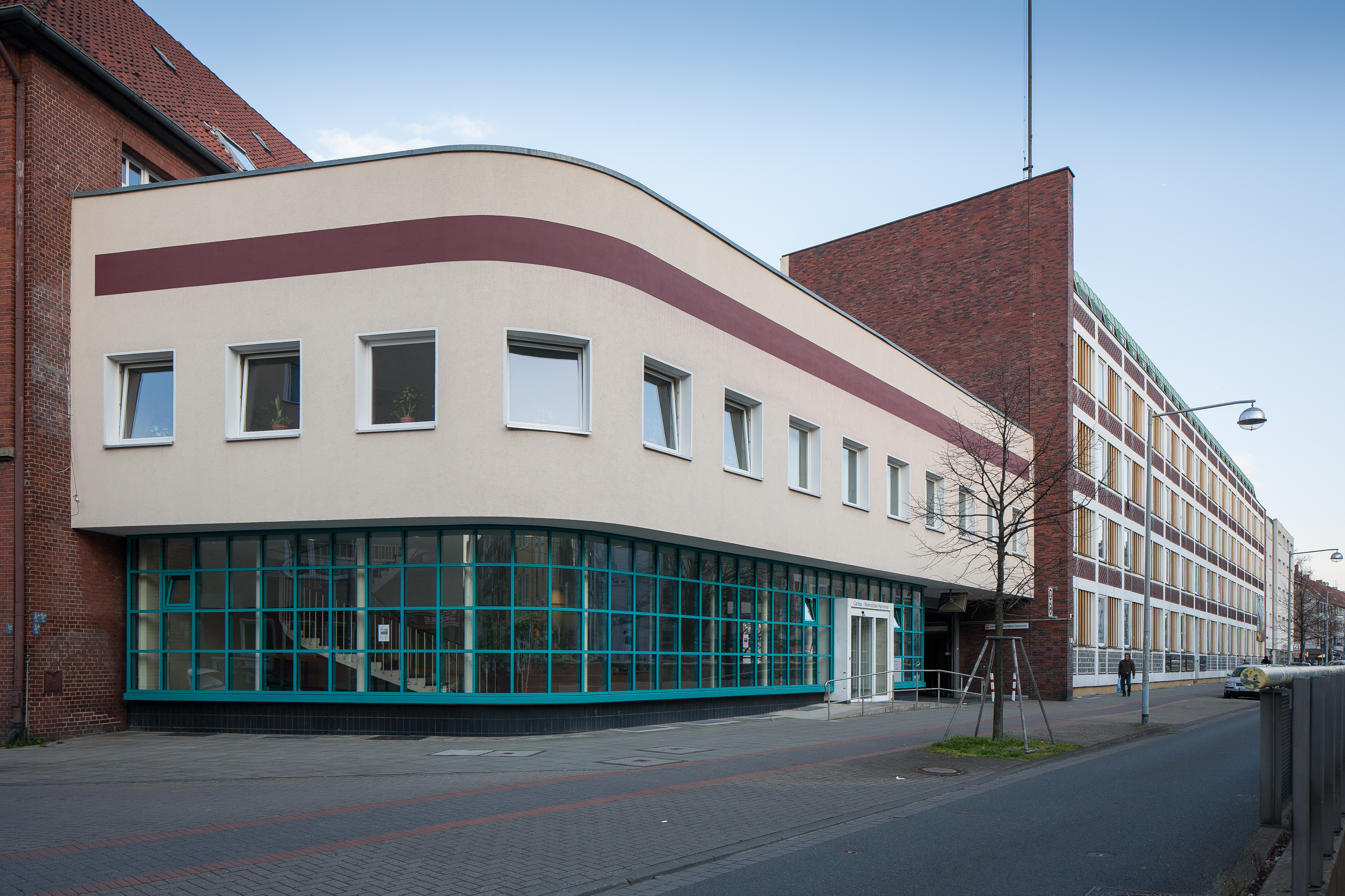 Former building of Appel Feinkost food company, located at Engelbosteler Damm in Hanover, Germany.